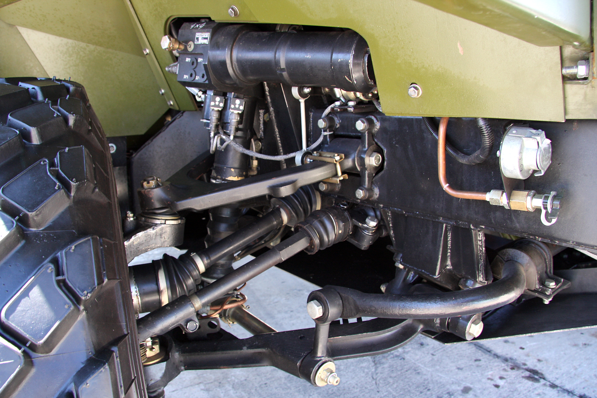 First presentation of VPK-3927 Volk family armored vehicles during Forum "Engineering Technologies 2010" (IDELF-2010)